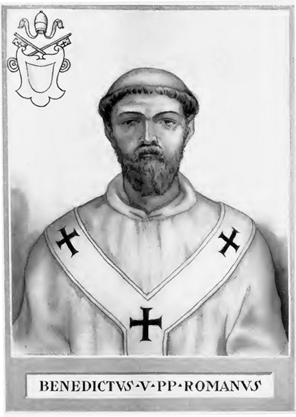 This illustration is from The Lives and Times of the Popes by Chevalier Artaud de Montor, New York: The Catholic Publication Society of America, 1911. It was originally published in 1842.